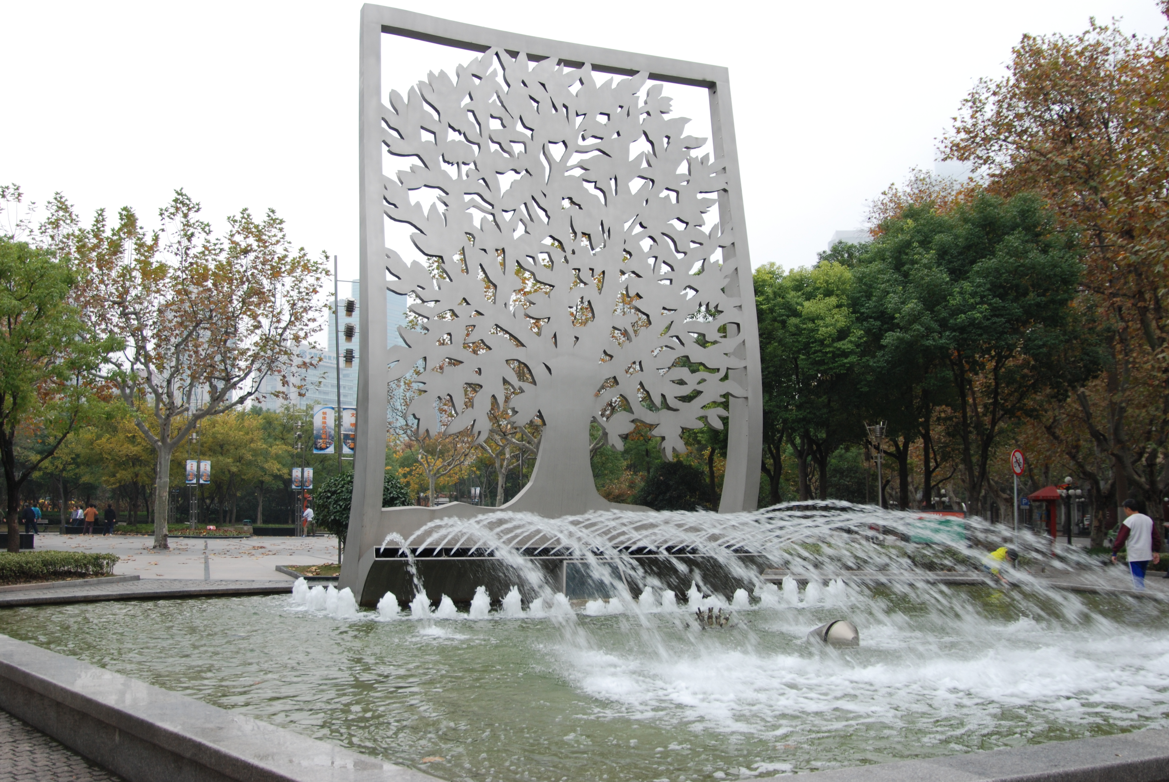 Fontaine de l'Espérance - Xujiahui